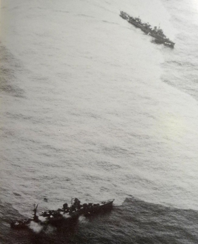 The Japanese light cruiser Yahagi (bottom) lies dead in the water, imobilised after a torpedo hit by U.S. Navy aircraft. The destroyer Isokaze is visible in the upper part of the picture, trying to aid Yahagi. She was subsequently heavily damaged by attacking aircraft and later scuttled by the destroyer Yukikaze with gunfire 240 km southwest of Nagasaki (30.46°N 128.92°E). Of those on board, 20 were killed and rest was rescued by other ships.